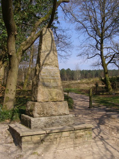 Monument to the memory of Thomas Hardy This monument was erected to the memory of the author Thomas Hardy by "a few of his American admirers" in 1931. He was born in the adjacent cottage on 2 June 1840, and in it he wrote "Under the greenwood tree" and "Far from the madding crowd". The track in the background leads to Puddletown Forest along Black Bottom. The heath on the right is Bhompston Heath.